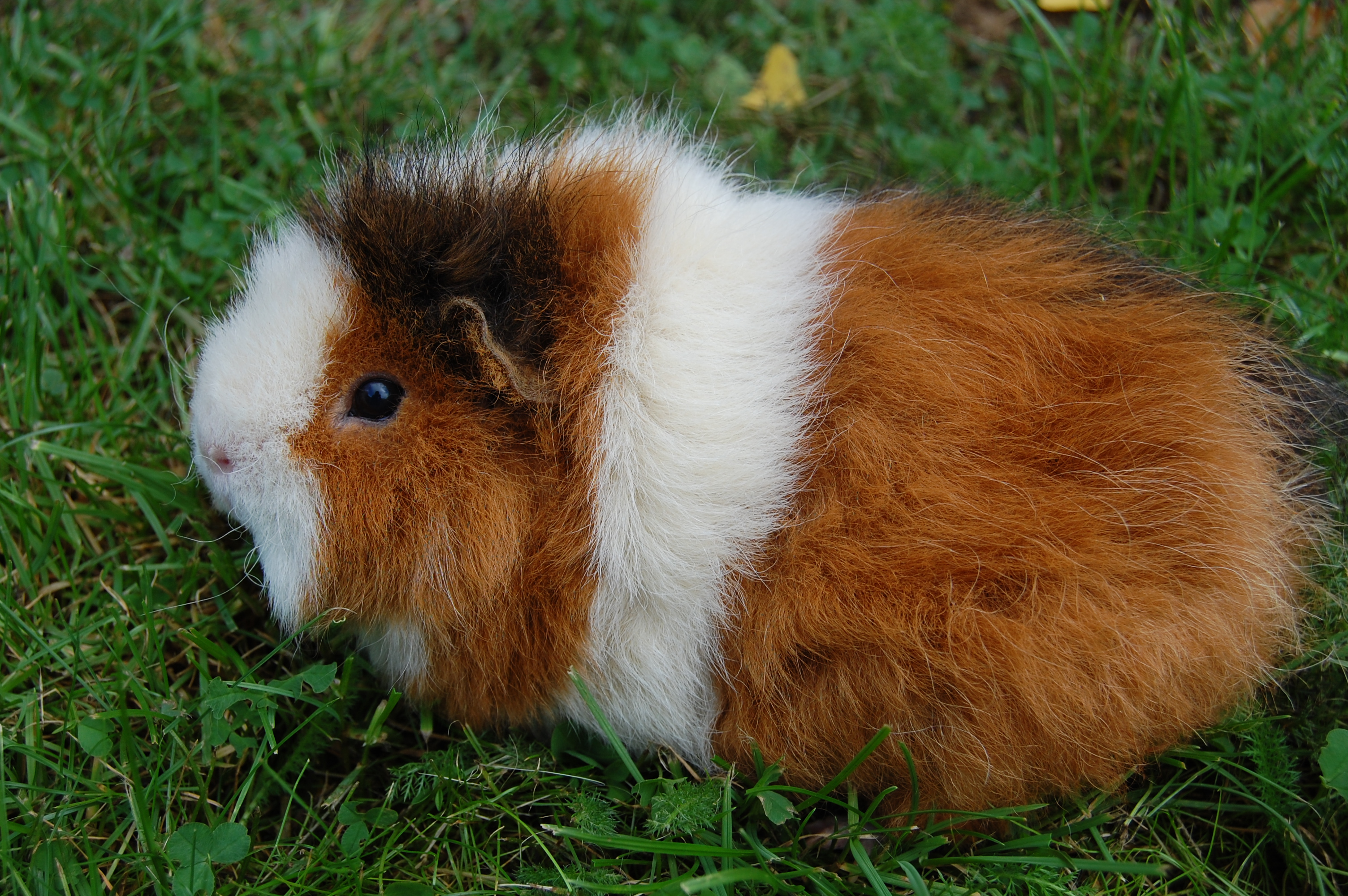 Norwegian guinea pig. Born in 2012.